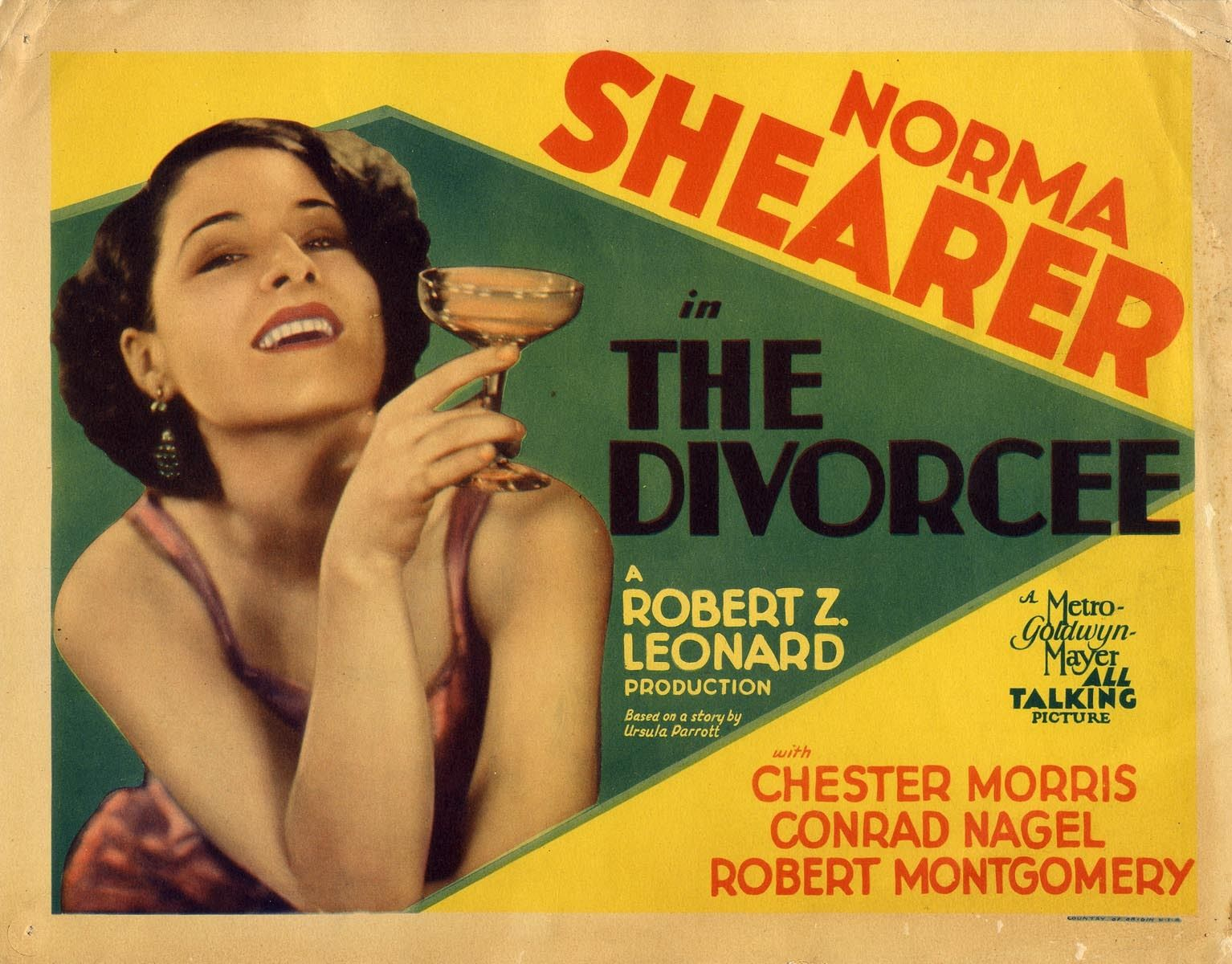 Lobby card for the American drama film The Divorcee (1930).